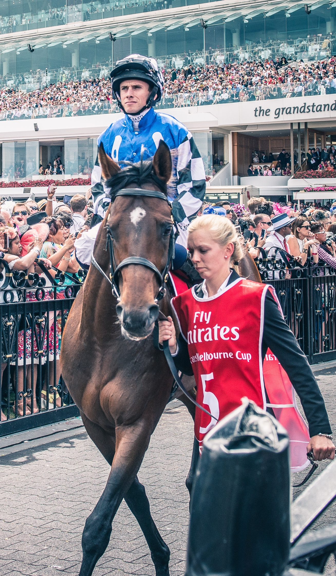 German horse Protectionist, ridden by English jockey Ryan Moore about to ride out onto the track prior to the Emirates Melbourne Cup race. The camera focused on the background than on the jockey, I hadn't set my focus points to be on the centre only. It's all part of learning. I'm releasing this picture to Creative Commons; perhaps one day someone can sponsor me and I'll get media accreditation.